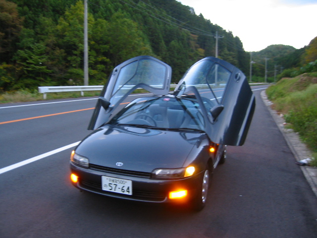 Image of Toyota Sera with its one of a kind huge gullwing doors open.